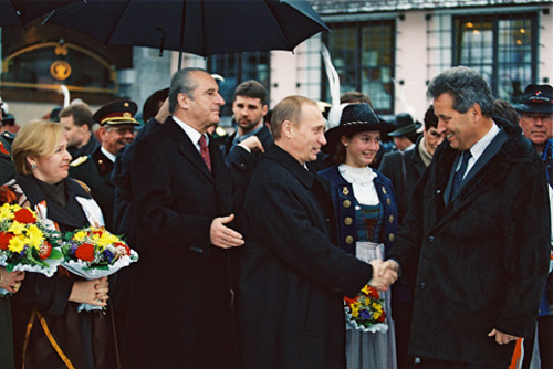 ST CHRISTOPH, AUSTRIA. President Putin and Lyudmila Putin meeting with Austrian President Thomas Klestil and Tyrol provincial governor Wendelin Weingartner (right).